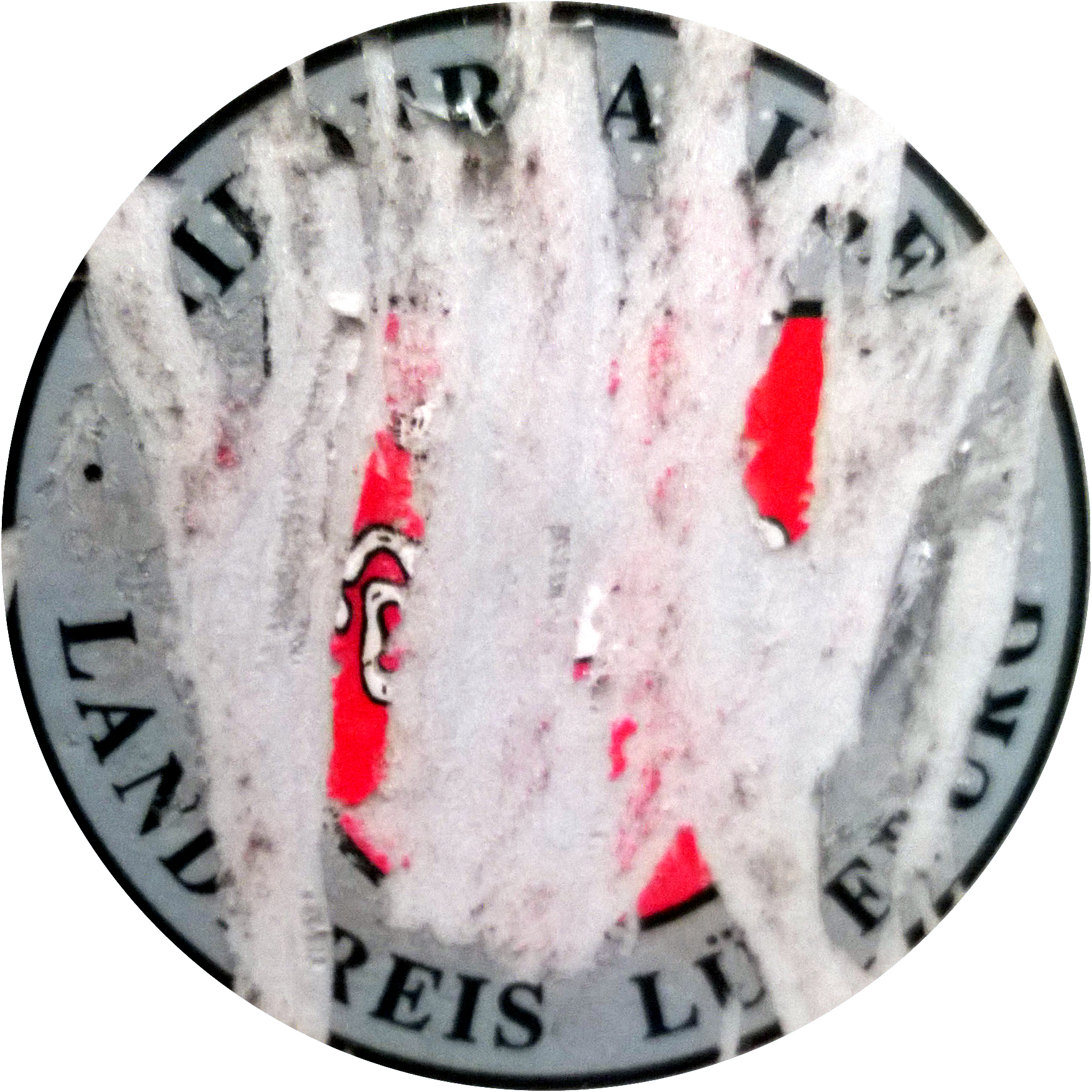 Eine entwertete (nicht mehr zugelassene) Zulassungsplakette des Landkreis Lüneburg